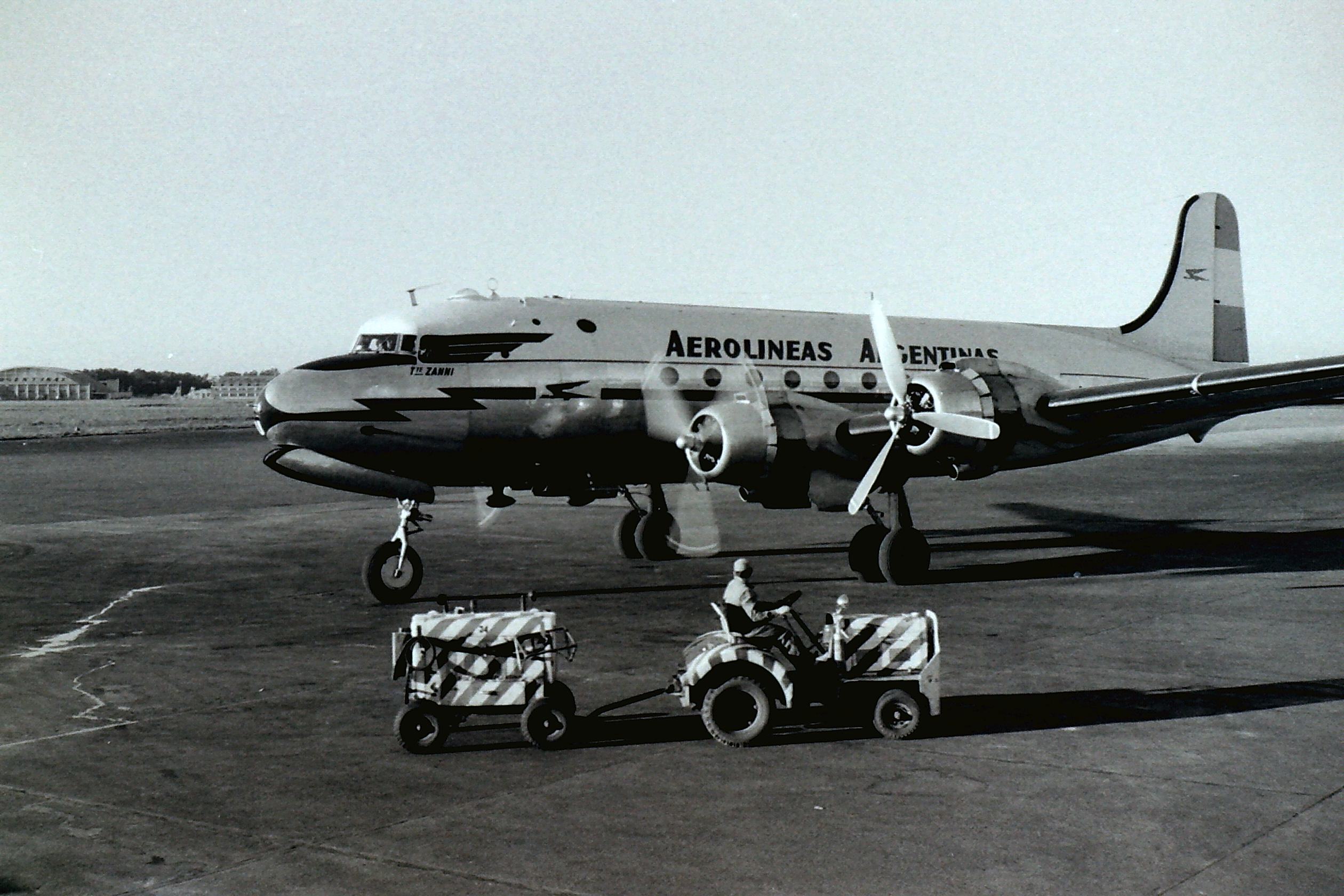 An Aerolíneas Argentinas DC-4 preparing for take-off at Buenos Aires International airport (EZE) around 1958.